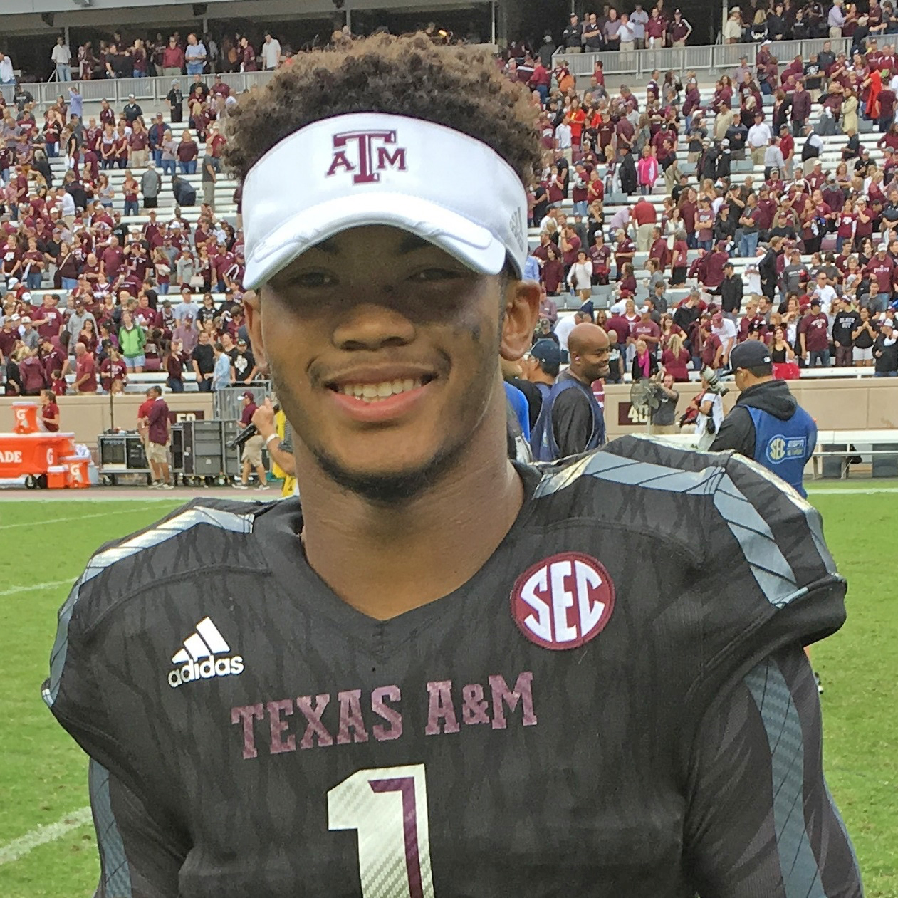 Kyler Murray immediately after winning his first football game as starting quarterback for the Texas A&M Aggies and defeating the South Carolina Gamecocks on October 31, 2015